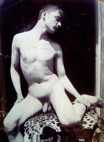 Wilhelm von Plüschow (1852-1930). Catalogue number: 10747. Stamped.